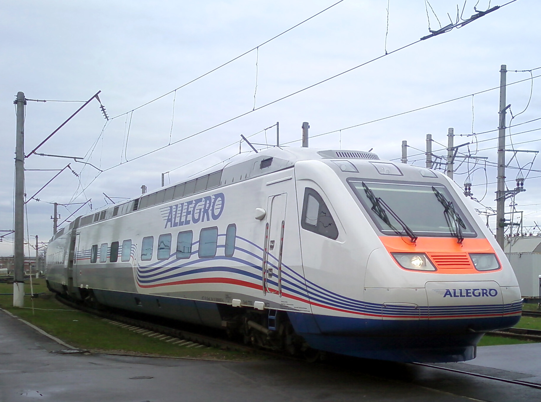 Electric train "Allegro"